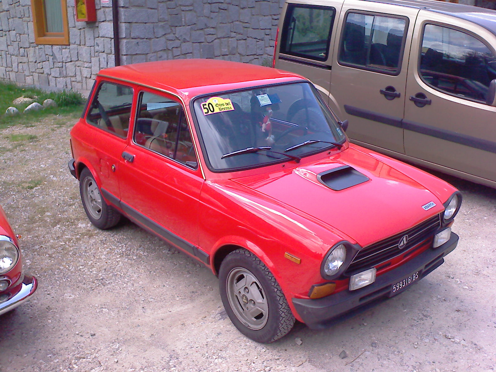 Autobianchi A112 Abarth mk4. Picture taken at Daone (Trento, Italy), on 30 april 2009